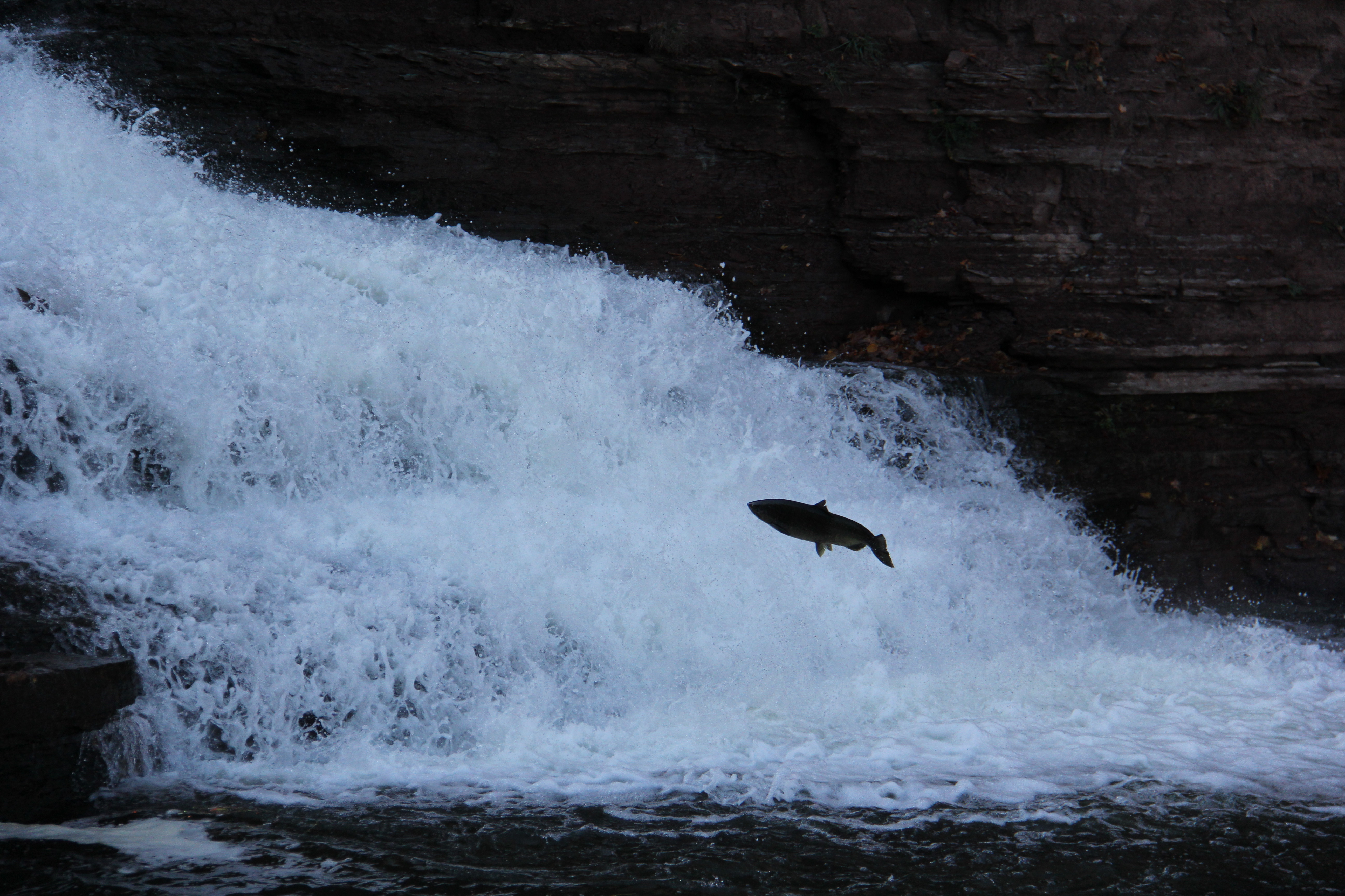 Oak Orchard Salmon Jumping Waterfall